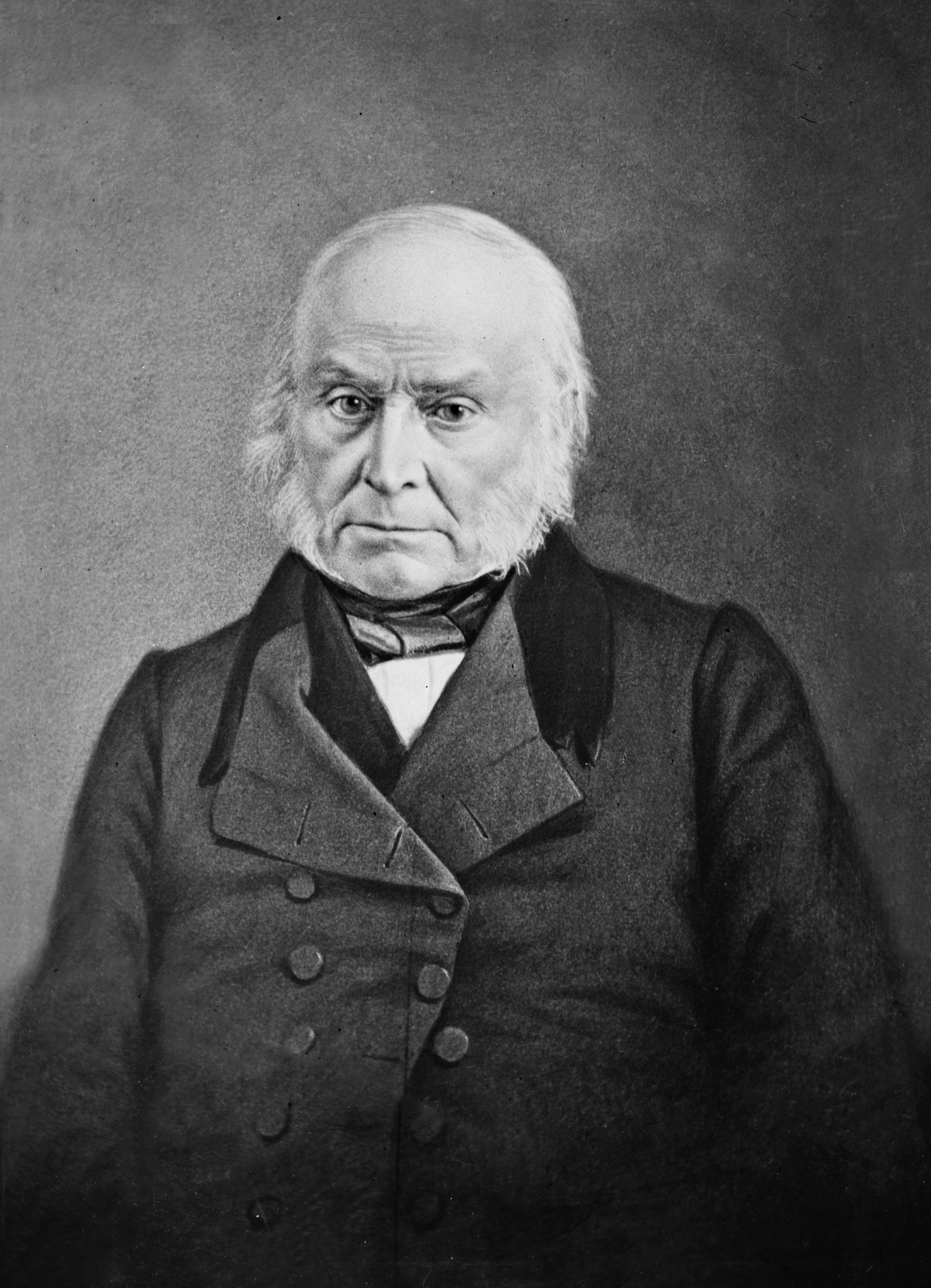 John Quincy Adams